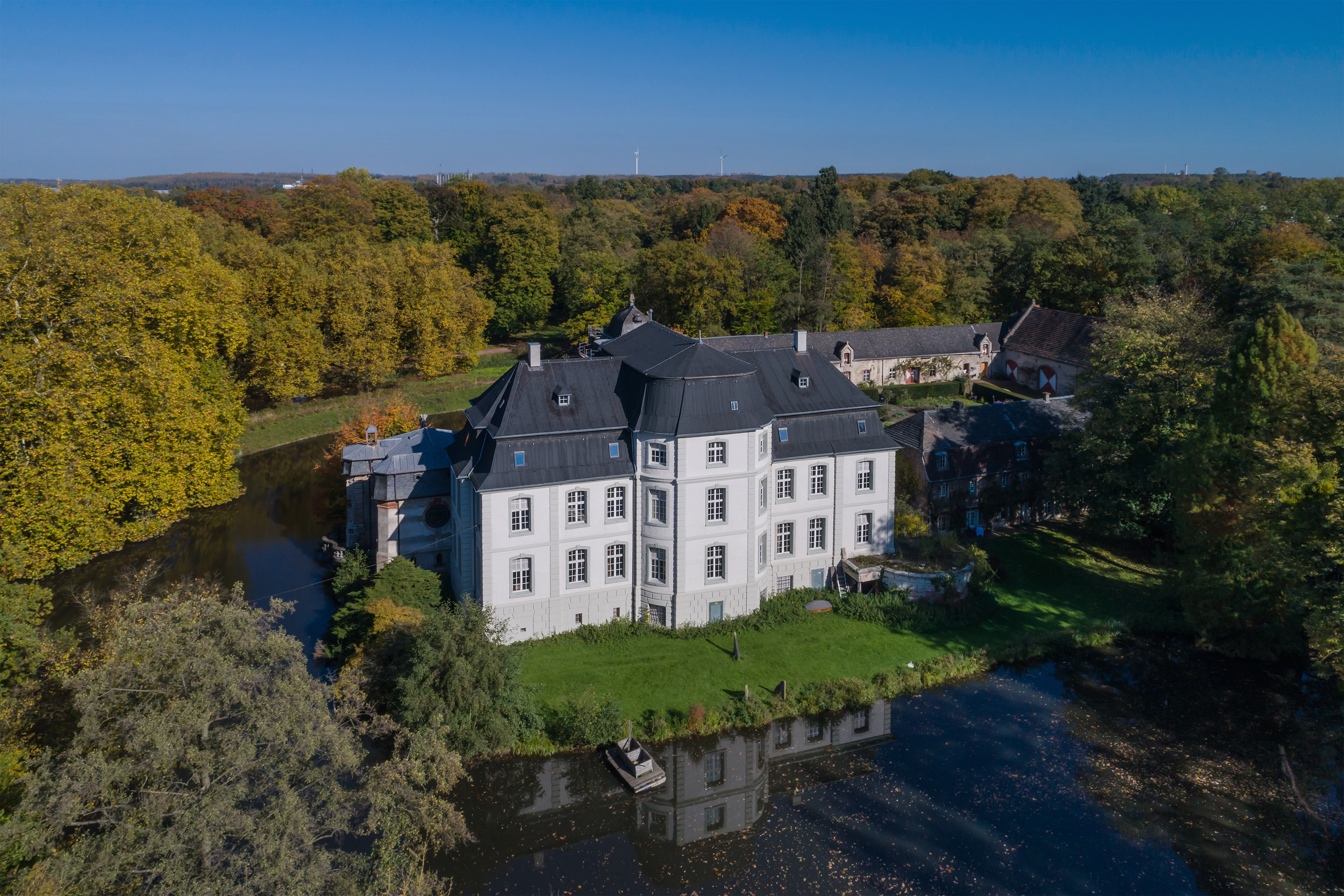 Tuernich castle (aerial photo) in Kerpen, Rhein-Erft-Kreis (Germany)